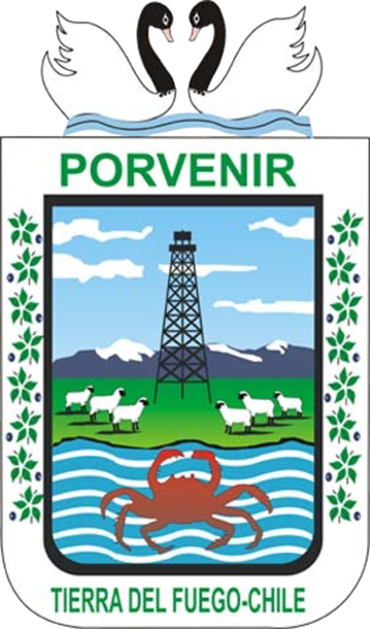 Porvenir, Chile